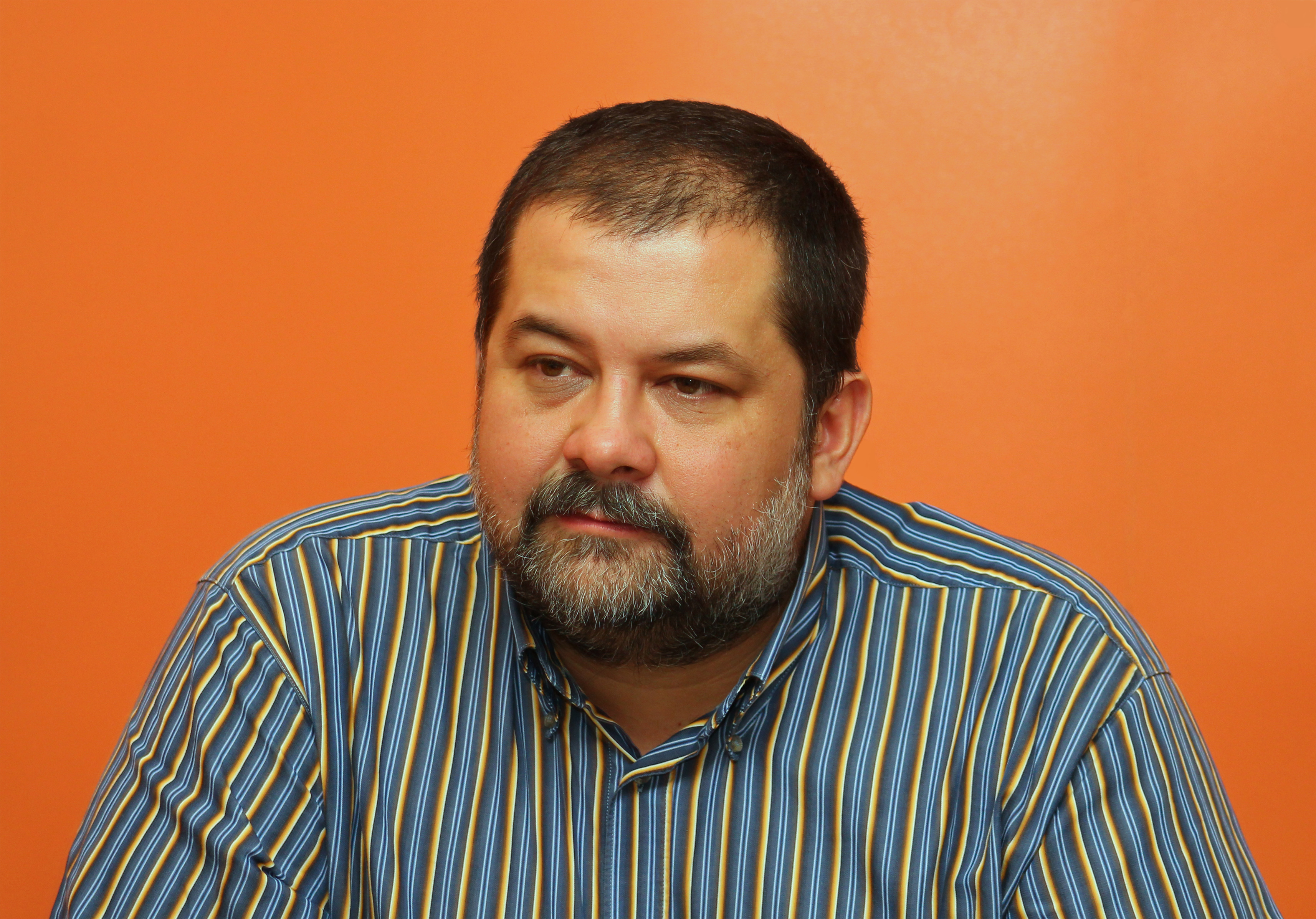 Russian writer Sergey Lukyanenko meets his readers in Moscow